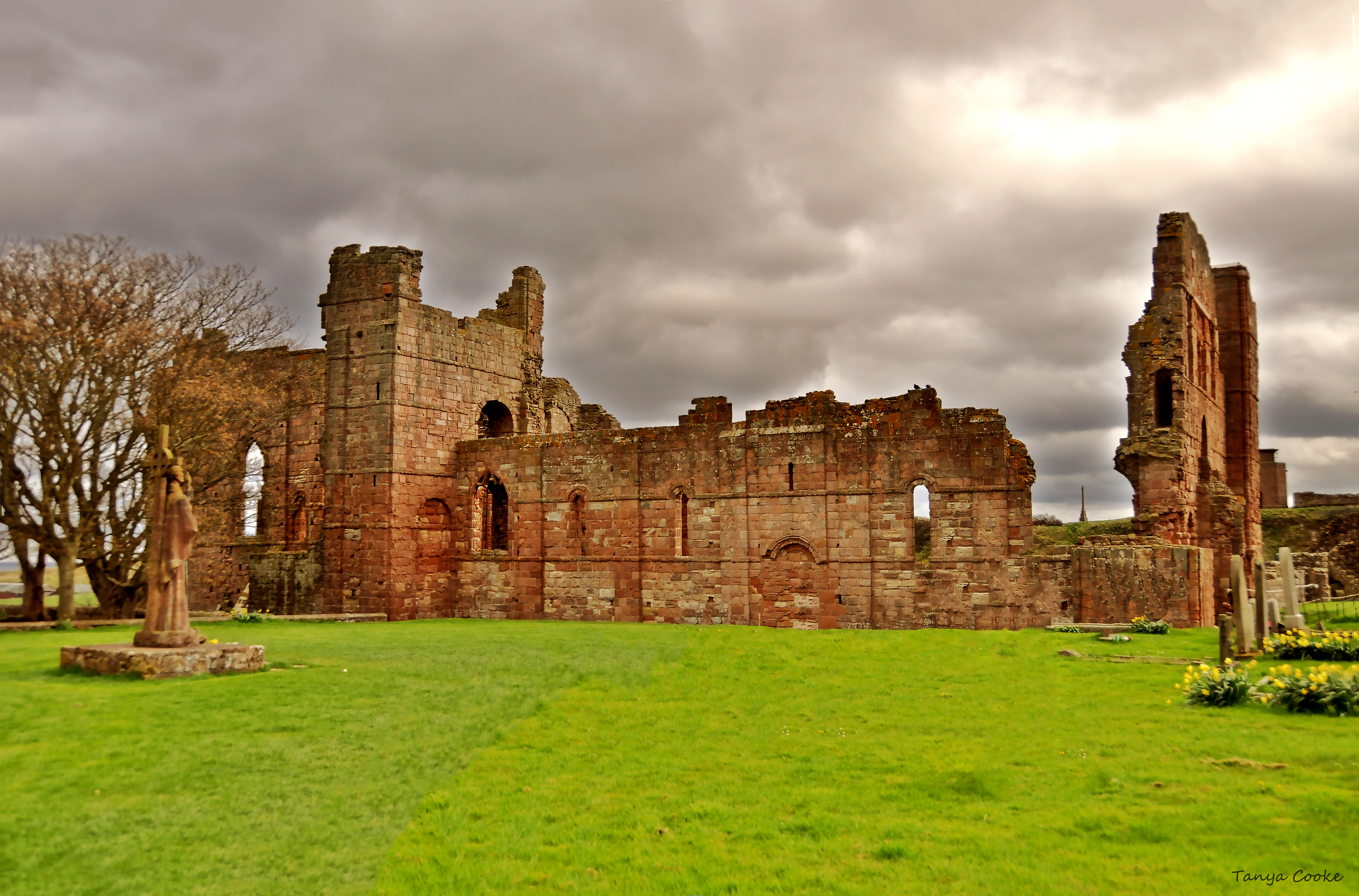 Lindisfarne Priory pre-Conquest monastery and post-Conquest Benedictine cell Wikidata has entry Q17662860 with data related to this monument.